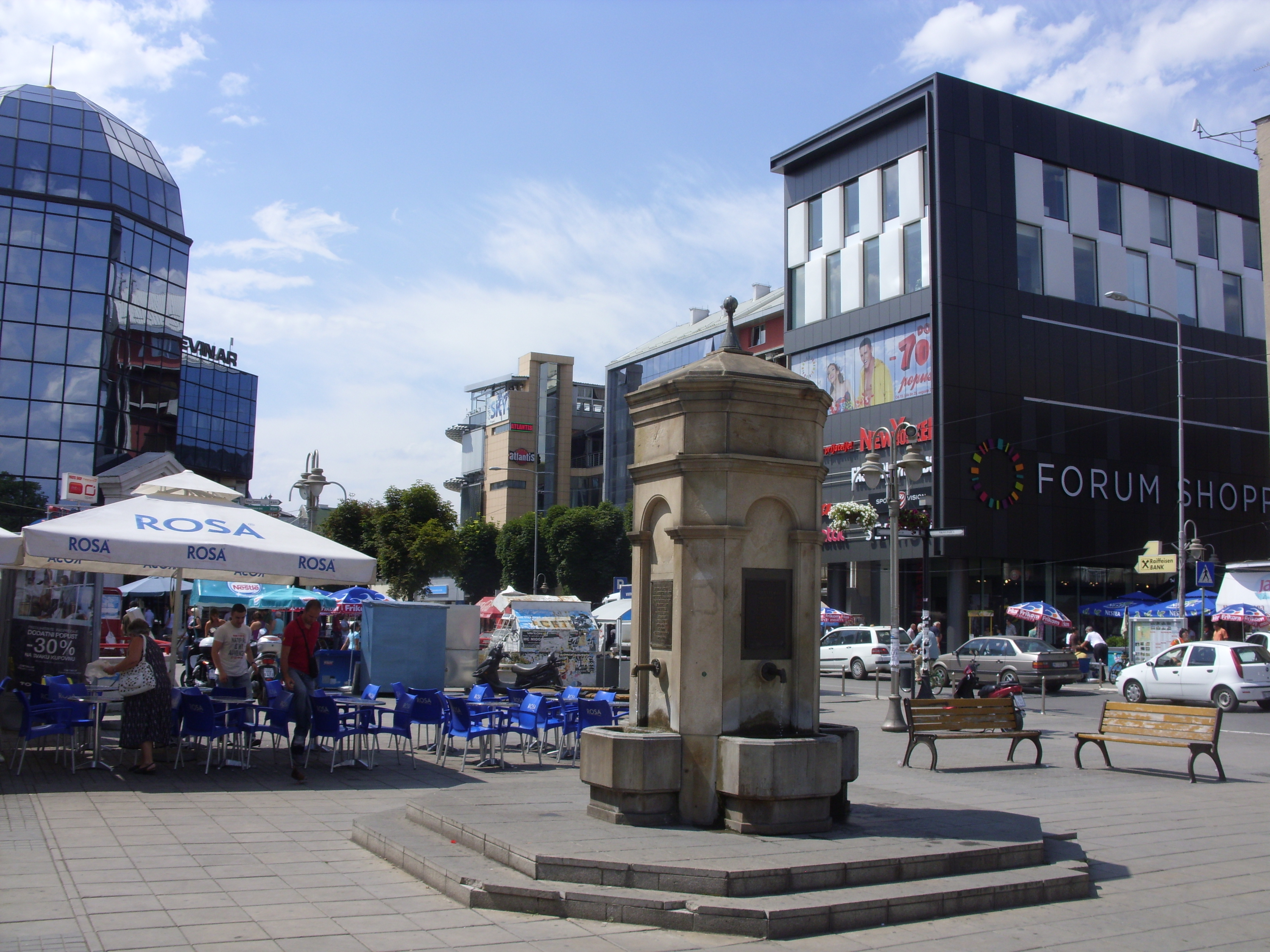 Shoping center in Nis, Serbia